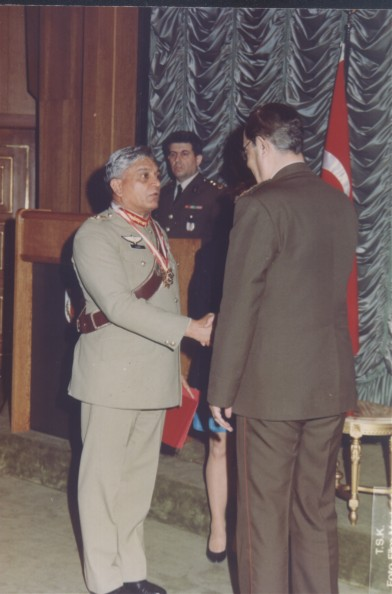 General Shamim Alam Khan receiving highest military award of Turkey from General Garesh Duan